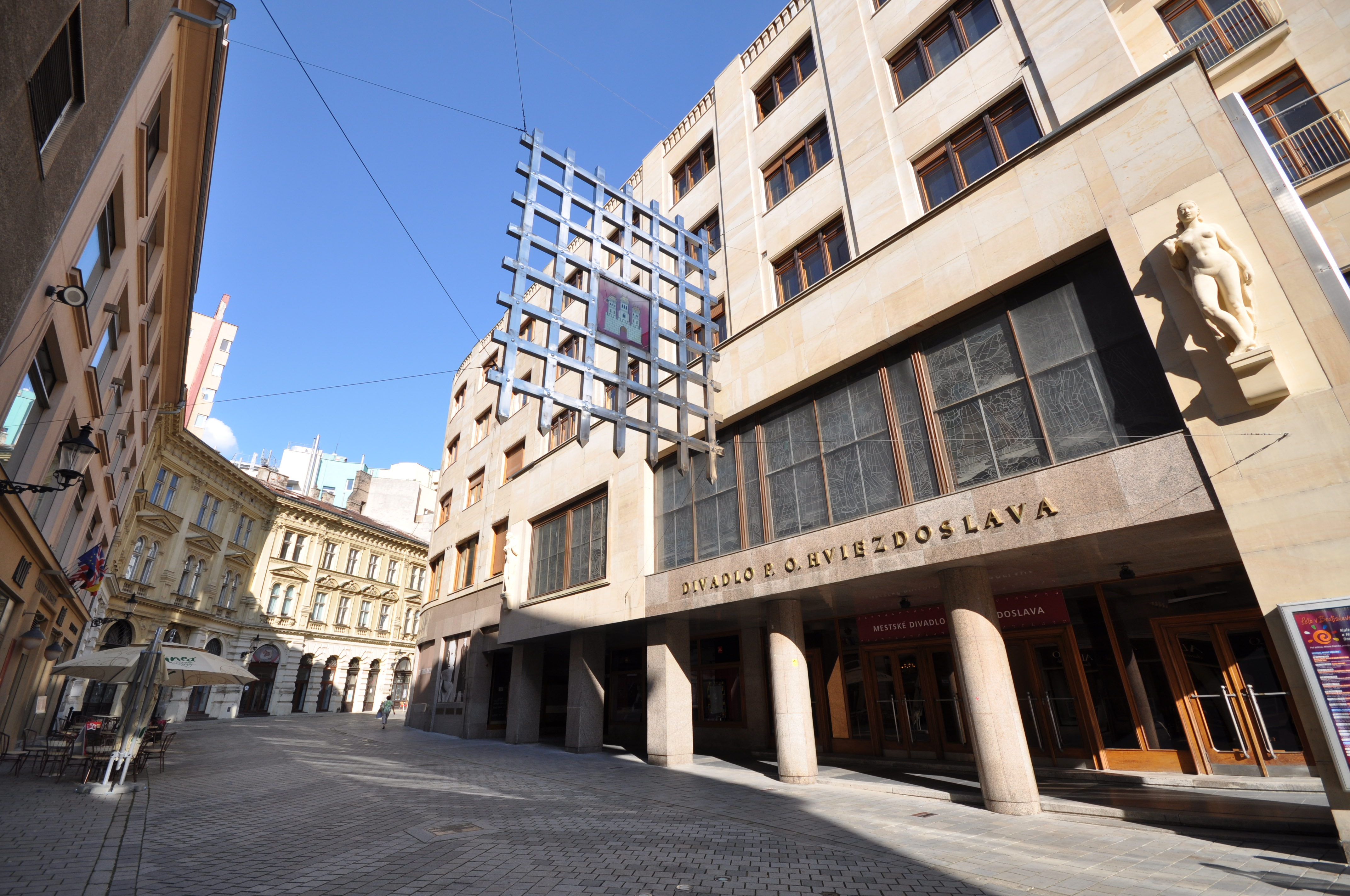 Portcullis hanging over Laurinská Street symbolizes the place of the former Laurinc Gate